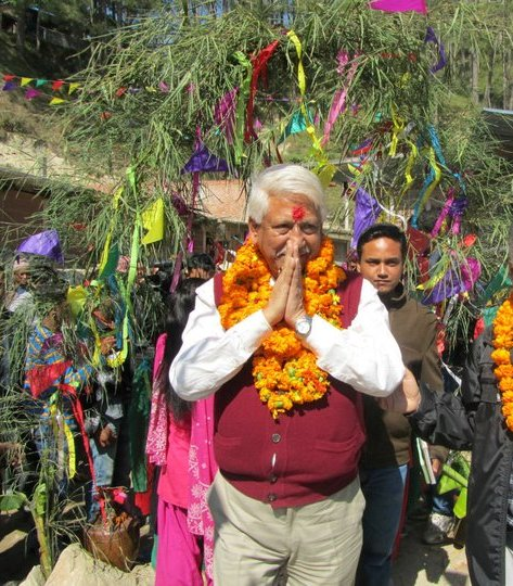 Mr KC